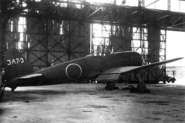 A Mitsubishi A7M2 Reppū ("Strong Gale") in a hangar of the Yokosuka Naval Air Technical Arsenal, after the end of the Second World War, circa in late 1945.